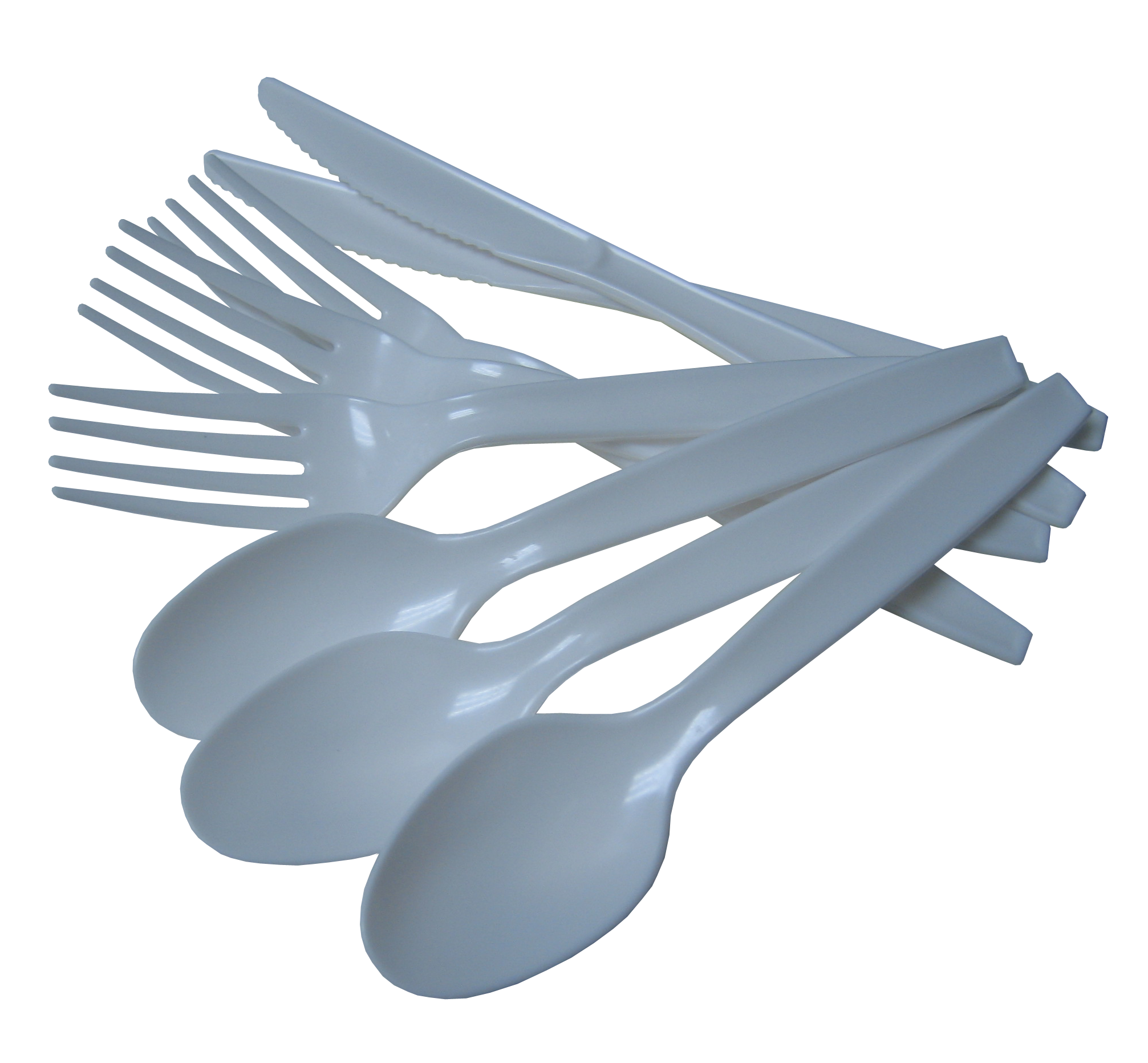 a collection of plastic forks, spoons, and knives